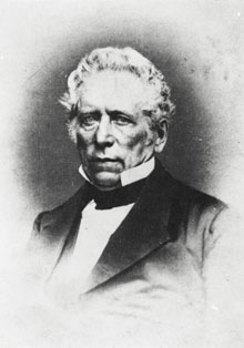 Portrait of french diplomat Jacques-Antoine Moerenhout (1797-1879) circa 1870.